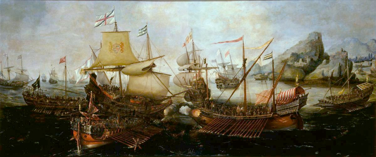 Attack on Spanish Treasure Galleys, Portugal